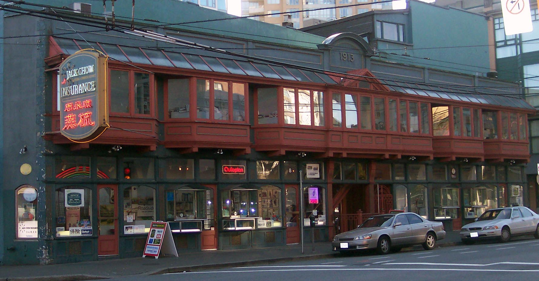 Sam Kee Building, Chinatown, Vancouver, BC, Canada